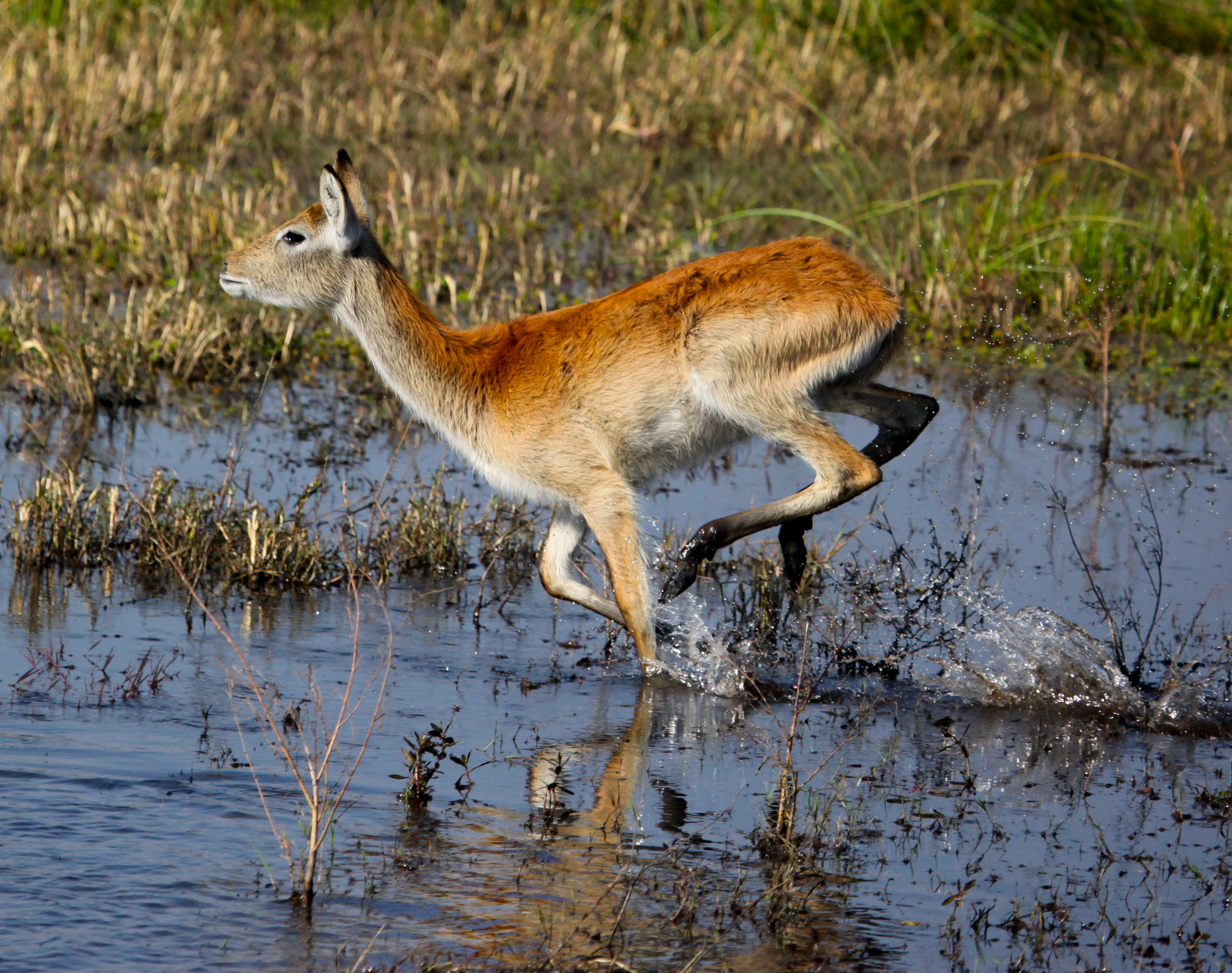 The Lechwe runs through knee-deep water as protection from predators. Their hind legs are longer, like mag wheels, and covered in a water repelling substance allowing them to run quite fast in deep water.